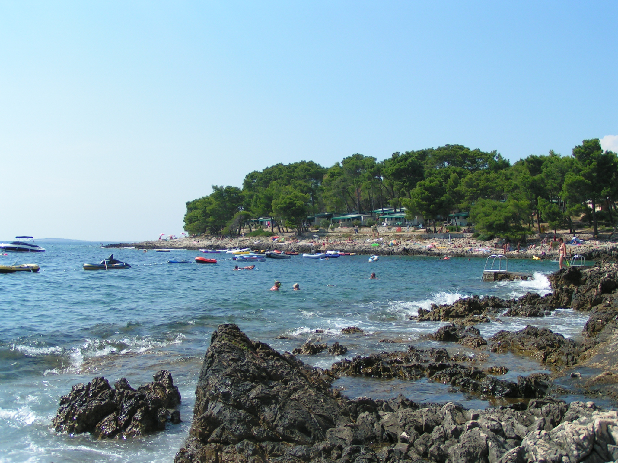 Camping Čikat in Mali Lošinj, Croatia.